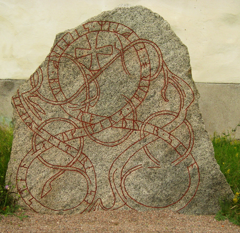 runic stone Upplands runinskrifter U1046